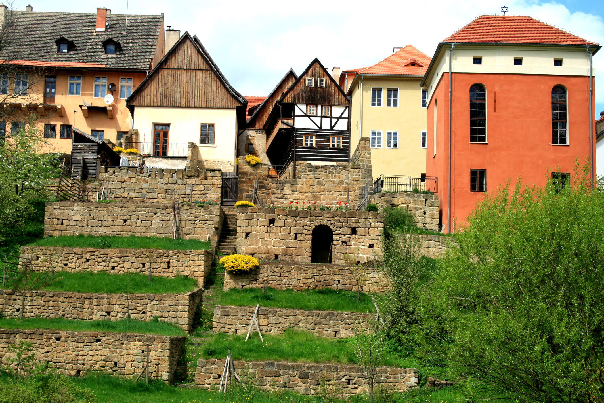 Jewish museum and square of Úštěk from back side